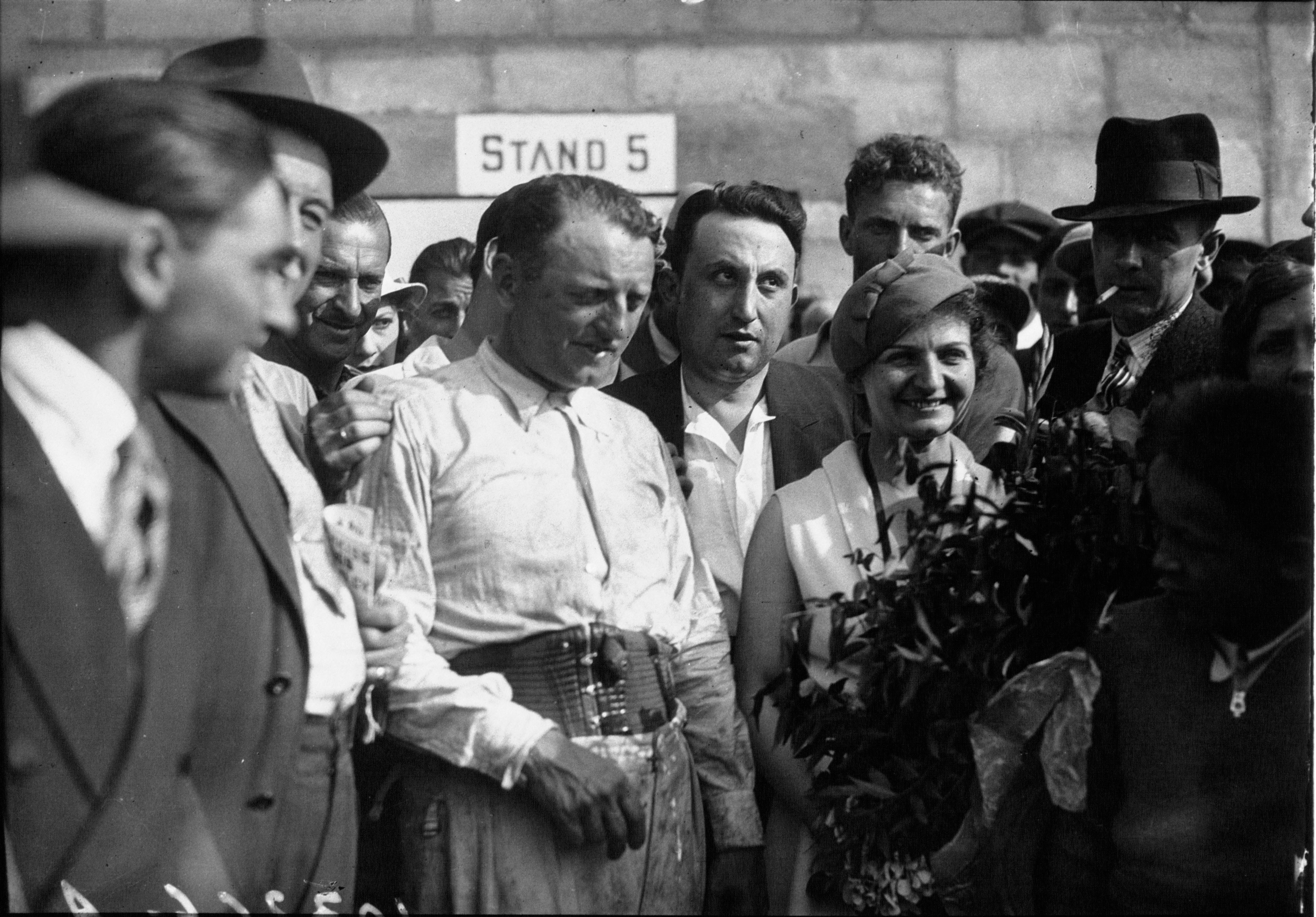 Philippe Étancelin at the 1933 Grand Prix de la Marne